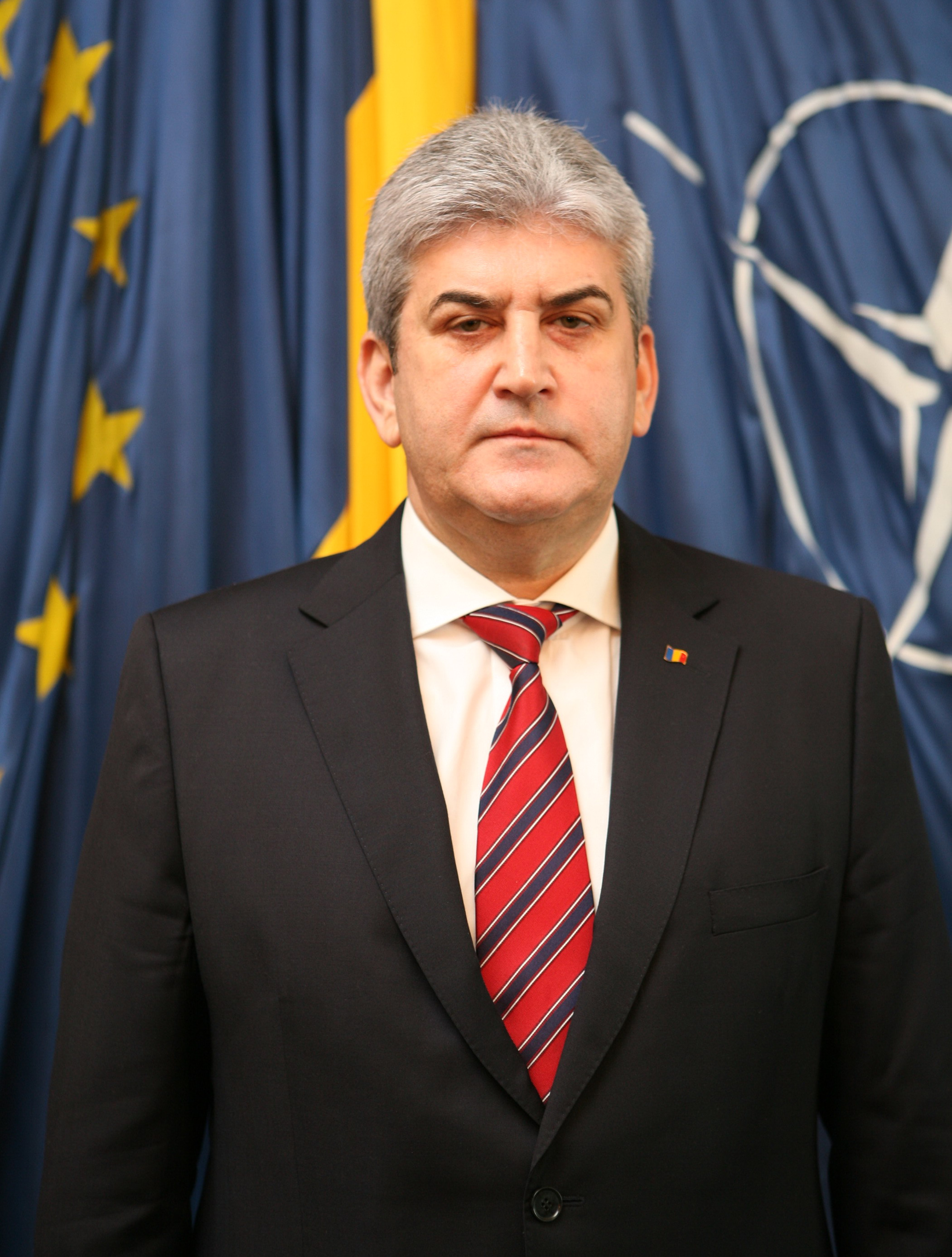 Gabriel Oprea (Minister of National Defence).